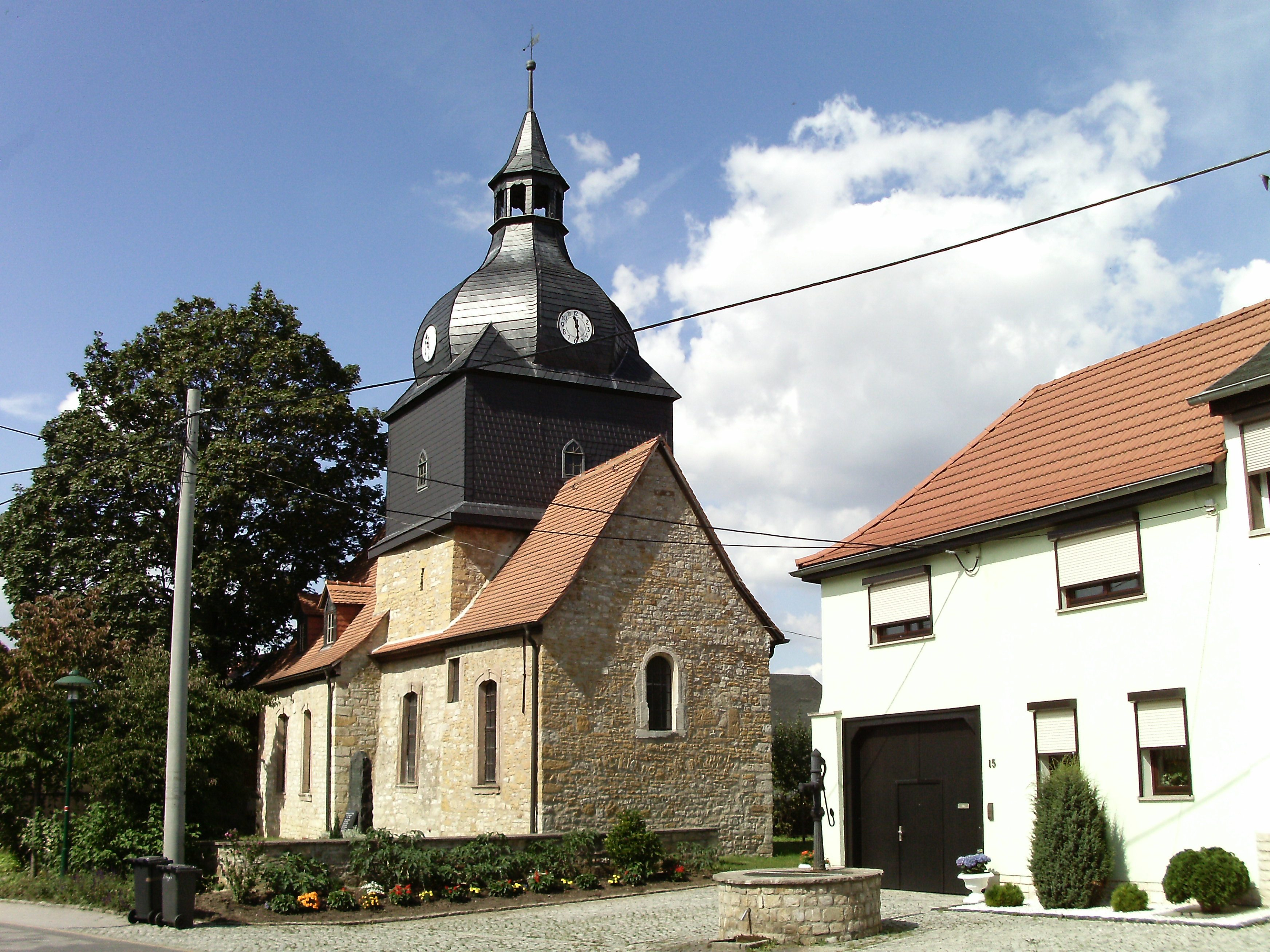 Rödigsdorf church (Apolda, district of Weimarer Land, Thuringia)